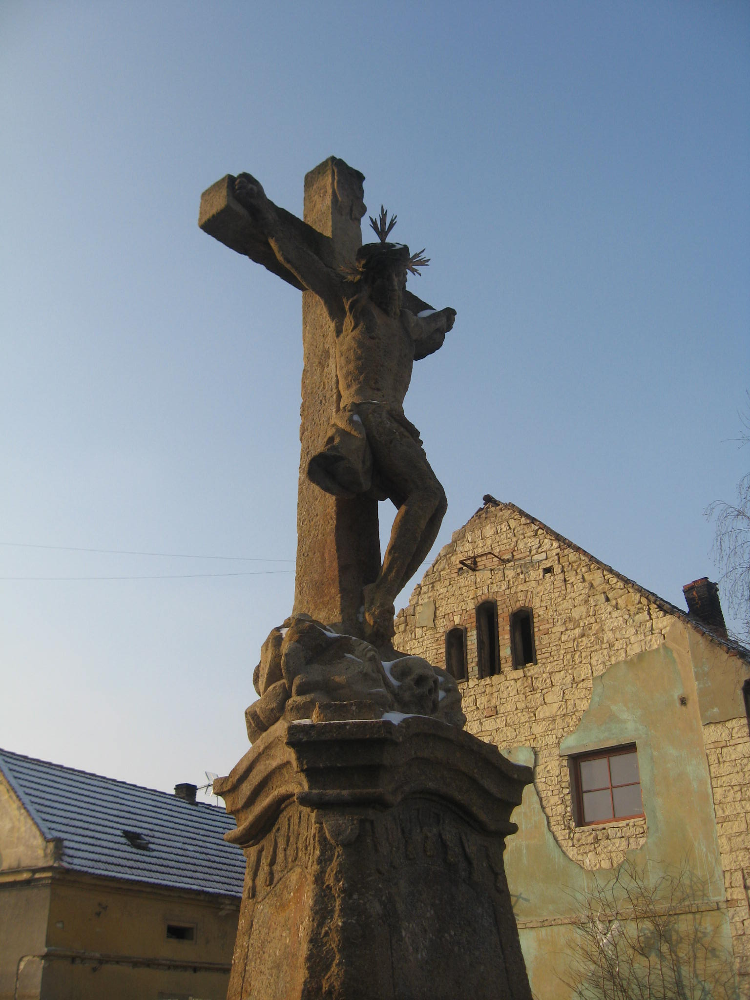 Crucifix in Březno (Louny District)